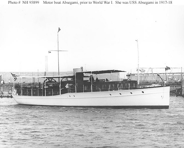 Absegami photographed circa 1916-1917